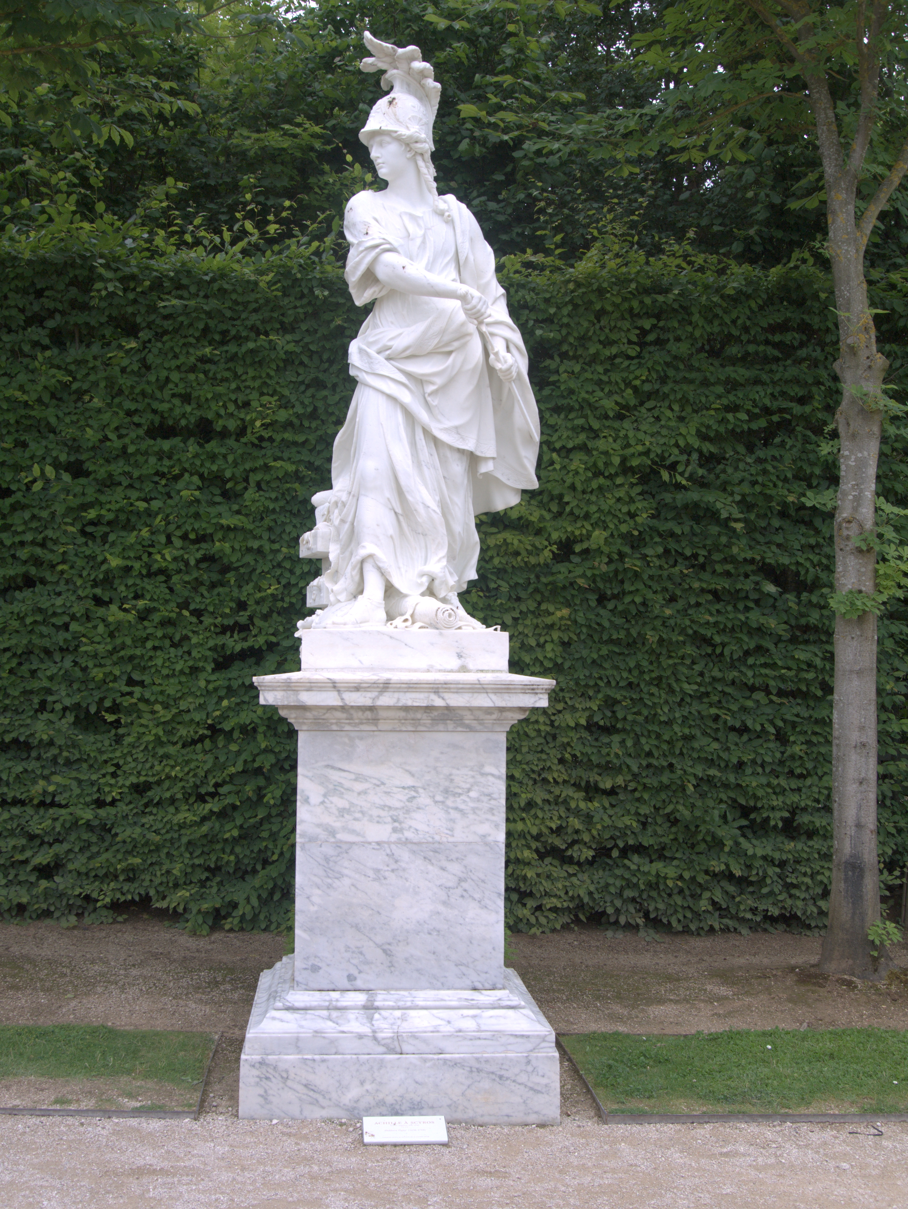 Photograph taken at the Park of the 'Château de Versailles' in France.